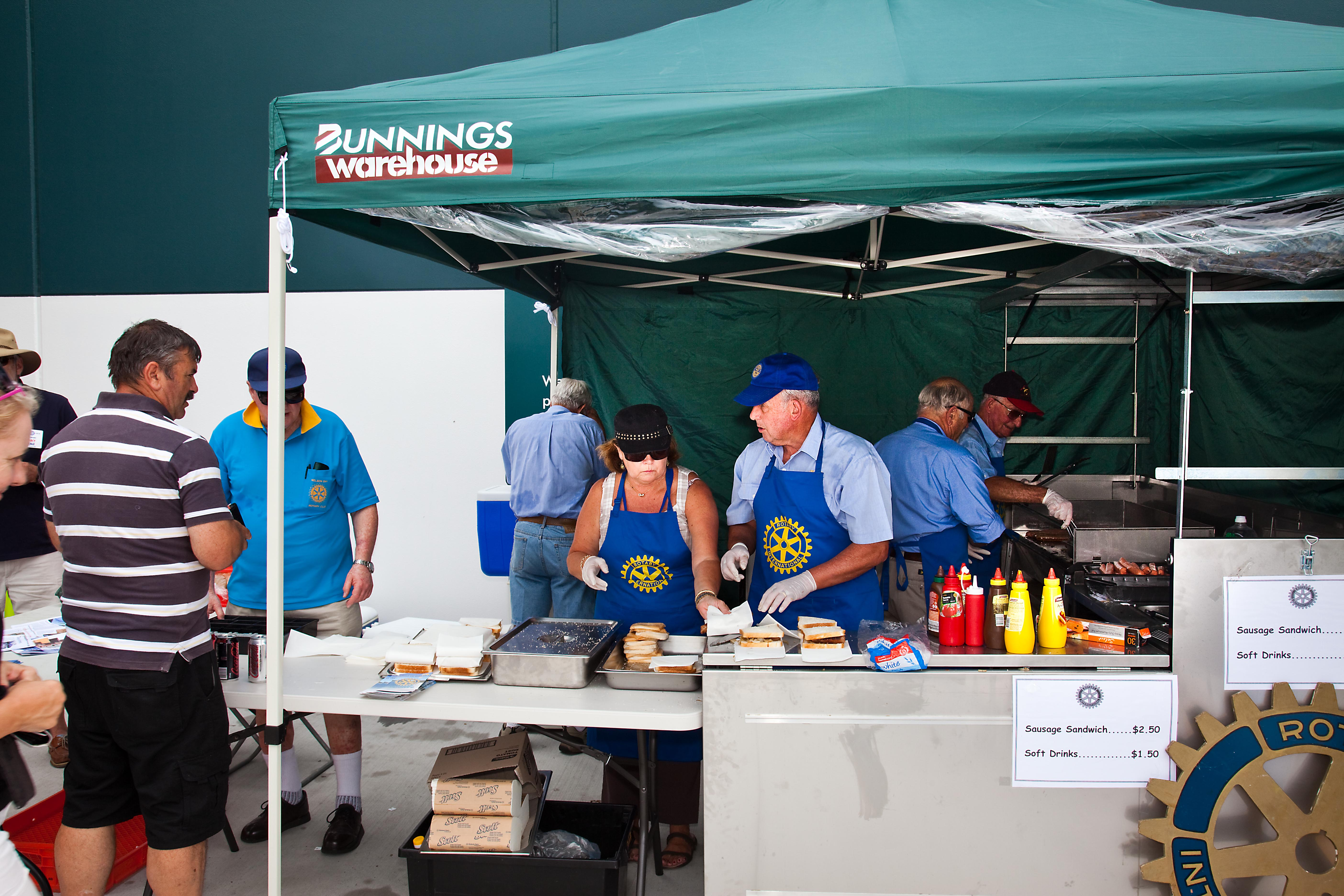 Henk Tobbe - "On the Friday after the opening of the new Bunnings Warehouse in Taylors Beach - Port Stephens, the Rotary Club of Nelson Bay was invited to raise funds by selling sausage sandwiches and cold softdrinks. Bunnings supplied the marquis with a brand new BBQ kitchen and the gas. A day of hard work raised $3100 for charities."